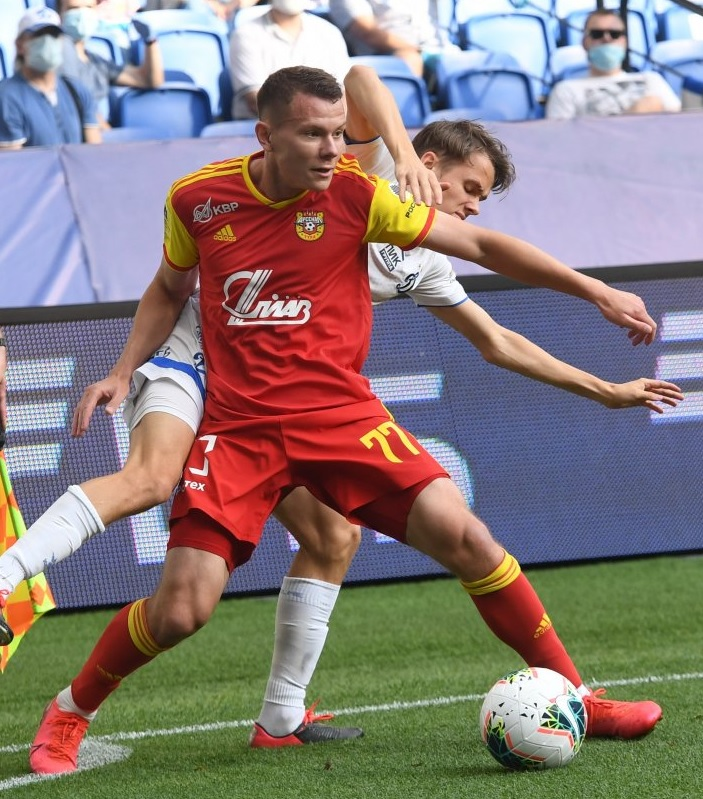 Roman Minayev with FC Arsenal Tula in a game against FC Dynamo Moscow.